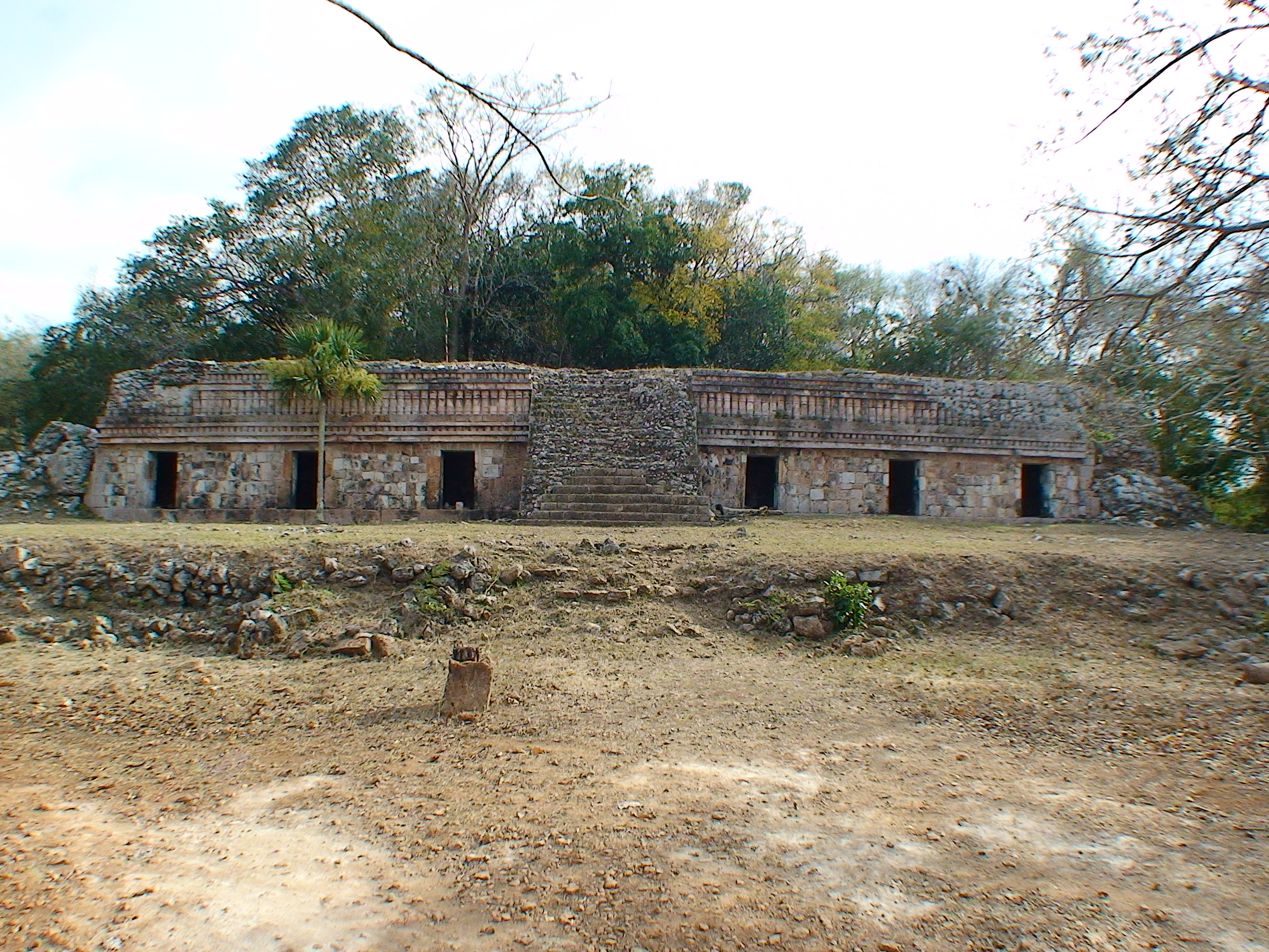 Chacmultun, Yucatan, Mexico: Cabalpak